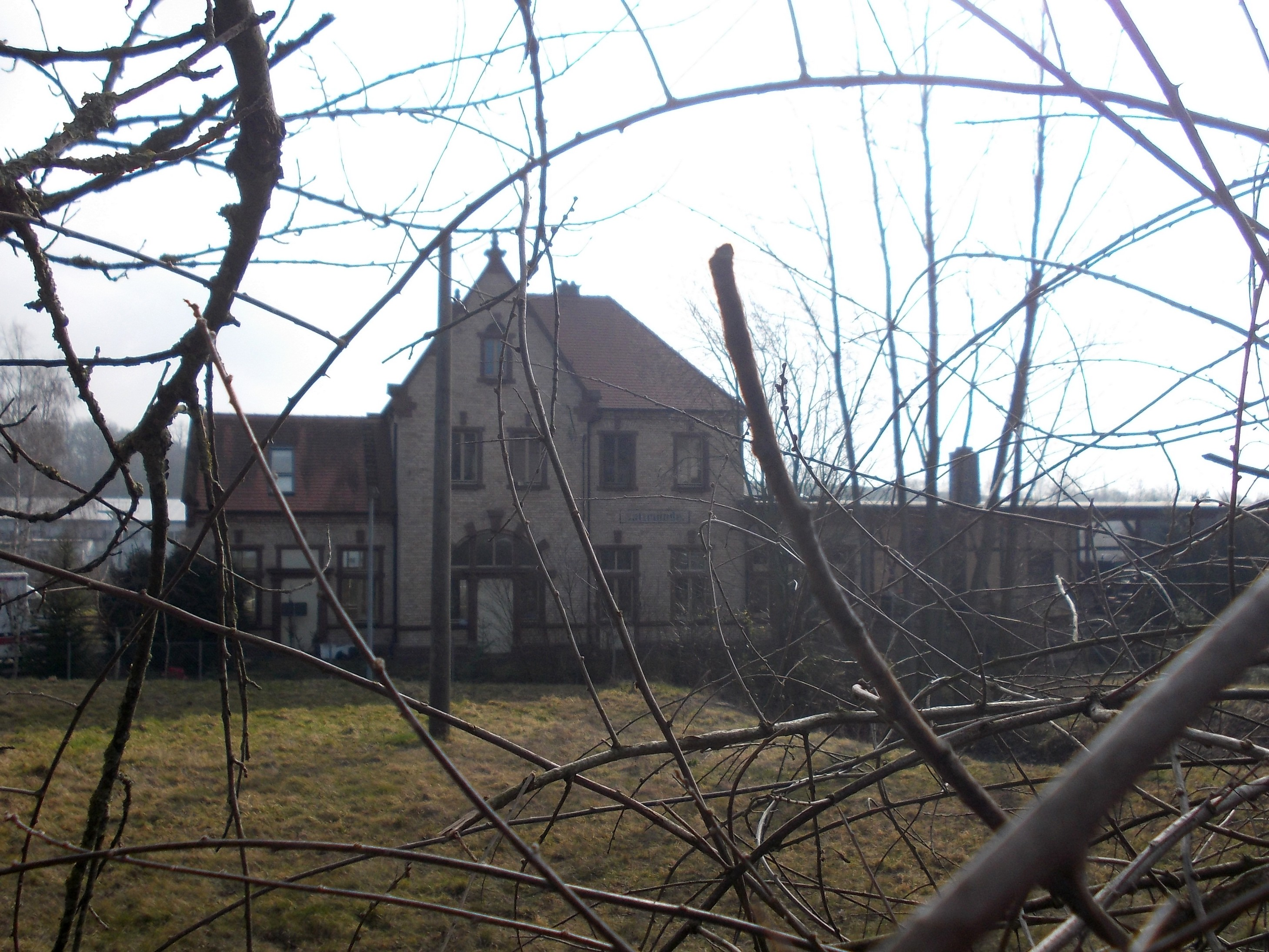 Former Salzmünde train station (salzatal, district: Saalekreis, Saxony-Anhalt)